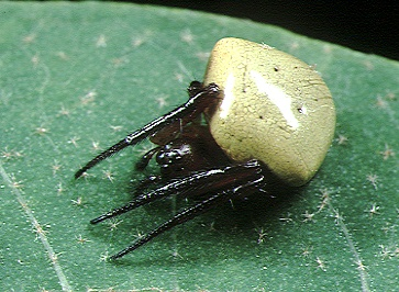 female Araneus viridiventris from Okinawa.